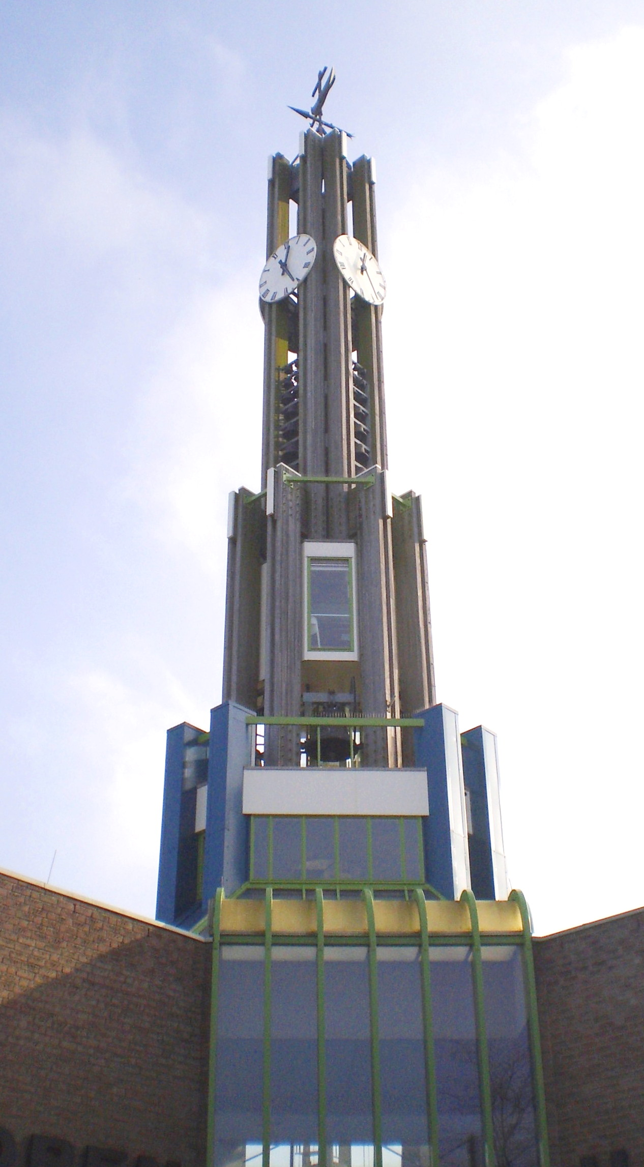 Open Haven church tower with carillon, Zeewolde, the Netherlands